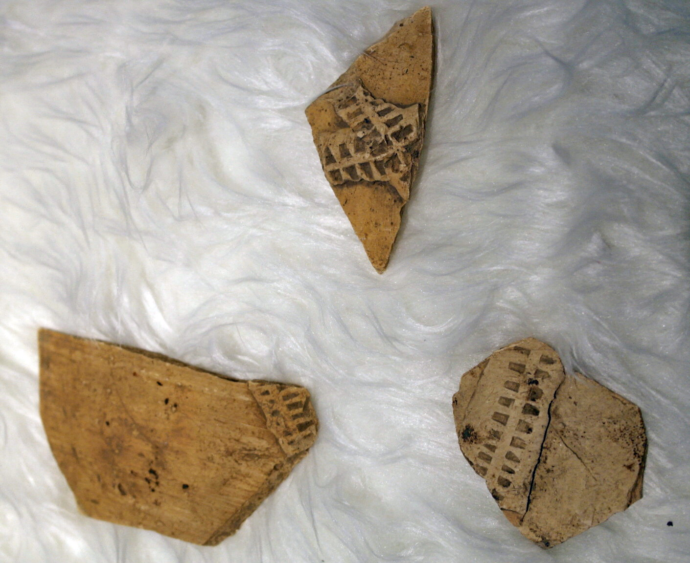 Three fragments of a late Carolingian amphora, found in Asselt, Limburg, the Netherlands. Collection LGOG, Maastricht/Venlo.